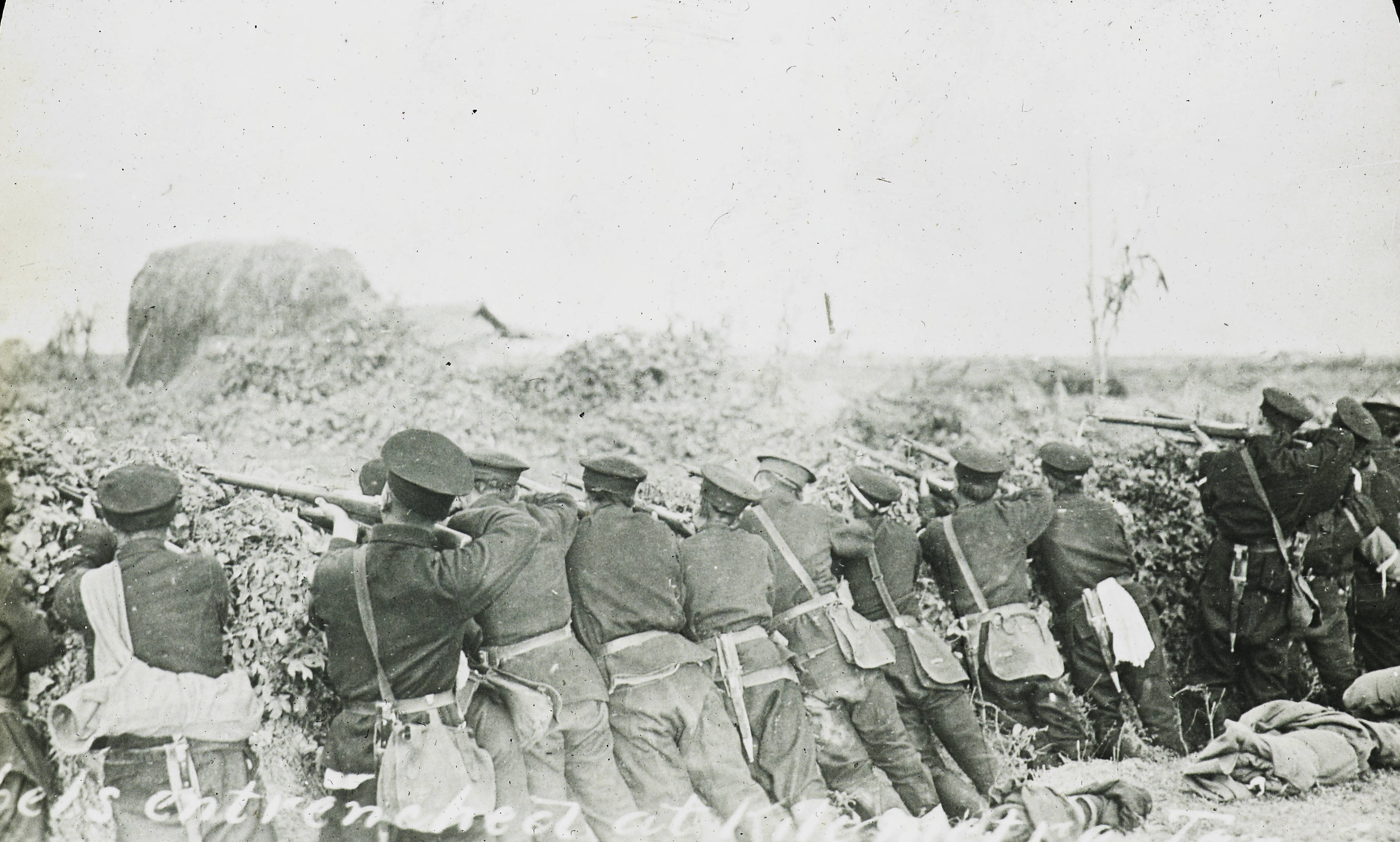 Rebels Entrenched at Kilometre Ten, China, 1911 Black and white lantern slide picturing entrenched rebel forces firing at Imperial troops from behind their lines at "kilometre ten" during the 1911 rebellion against the Qing dynasty, from October to December 1911. "Kilometre ten" perhaps refers to the distance from the centre of the city of Hankou, and was a rebel battle station attacked and taken by Qing troops in late October 1911. This slide comes from a collection held by the Church of Scotland and generated by the medical missionary Charles Somerville, who worked for the London Missionary Society in Hankou from 1904 to 1914. Photographer: Unknown Filename: IMP-CSWC47-LS1-46.tif Coverage date: 1911 Subject (unesco): Revolutions; Political movements Part of collection: International Mission Photography Archive, ca.1860-ca.1960 Part of subcollection: Photographs from the Centre for the Study of World Christianity, University of Edinburgh, U.K., ca.1900-ca.1940s Repository name: Centre for the Study of World Christianity Archival file: Volume4/IMP-CSWC47-LS1-46.tif Geographic subject (city or populated place): Wuhan Repository address: The University of Edinburgh School of Divinity, New College, Mound Place, Edinburgh EH1 2LX, United Kingdom Geographic subject (country): China Format (aacr2): lantern slides 8.2 x 8.2cm Geographic subject (continent): Asia Rights: Contact the repository for details. Part of series: Church of Scotland Slide and Visual Collection; Charles Somerville (CSWC47-LS1) Repository Date created: 1911 Publisher (of the digital version): University of Southern California. Libraries Subject (aat genre): exterior views Format (aat): lantern slides; photographs Geographic subject (state): Hubei Access conditions: Geographic subject: military sites File: CSWC47/LS1/46 Contributor: Photo Department, Tientsin Hui Wen Academy, Tientsin, China Subject (lcsh): Rebellions; New Army (China); soldiers